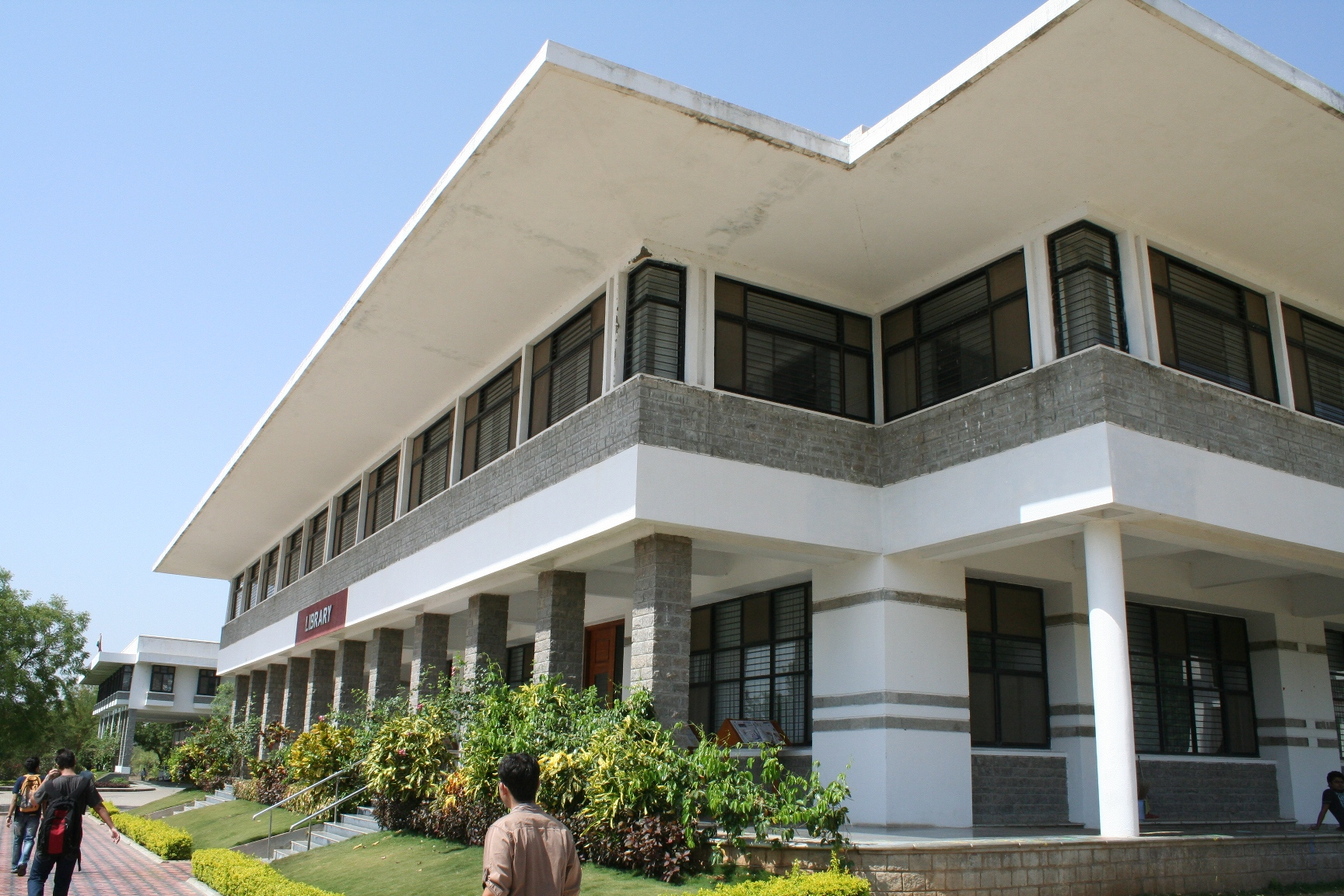 Nalsar law library.